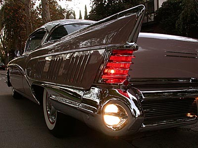 1958 Buick Limited qualifies for Public Domain release having received permission to use the image for the purpose of illustrating features of the Buick Limited from Kris Trexler.